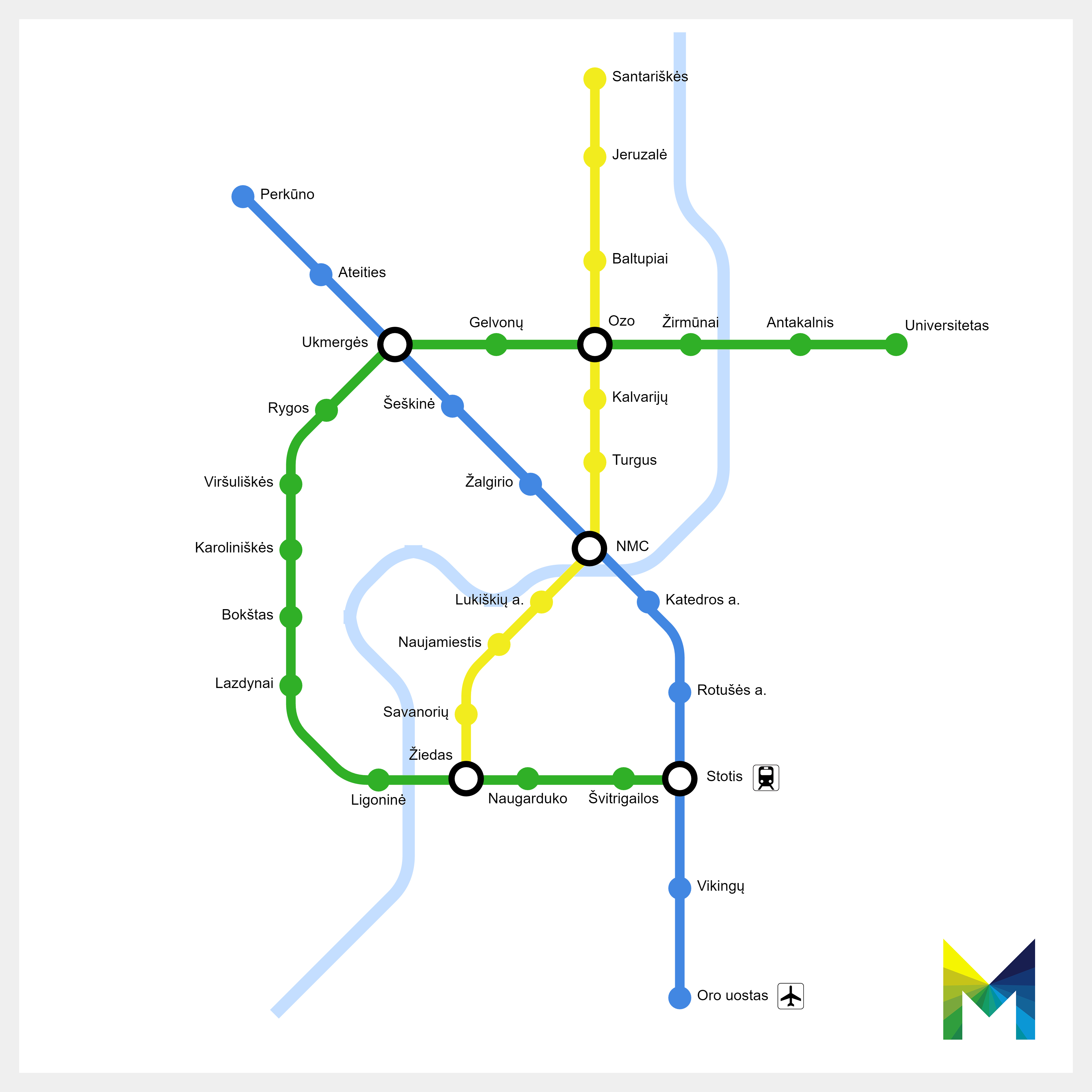 One of the proposed grid layouts.